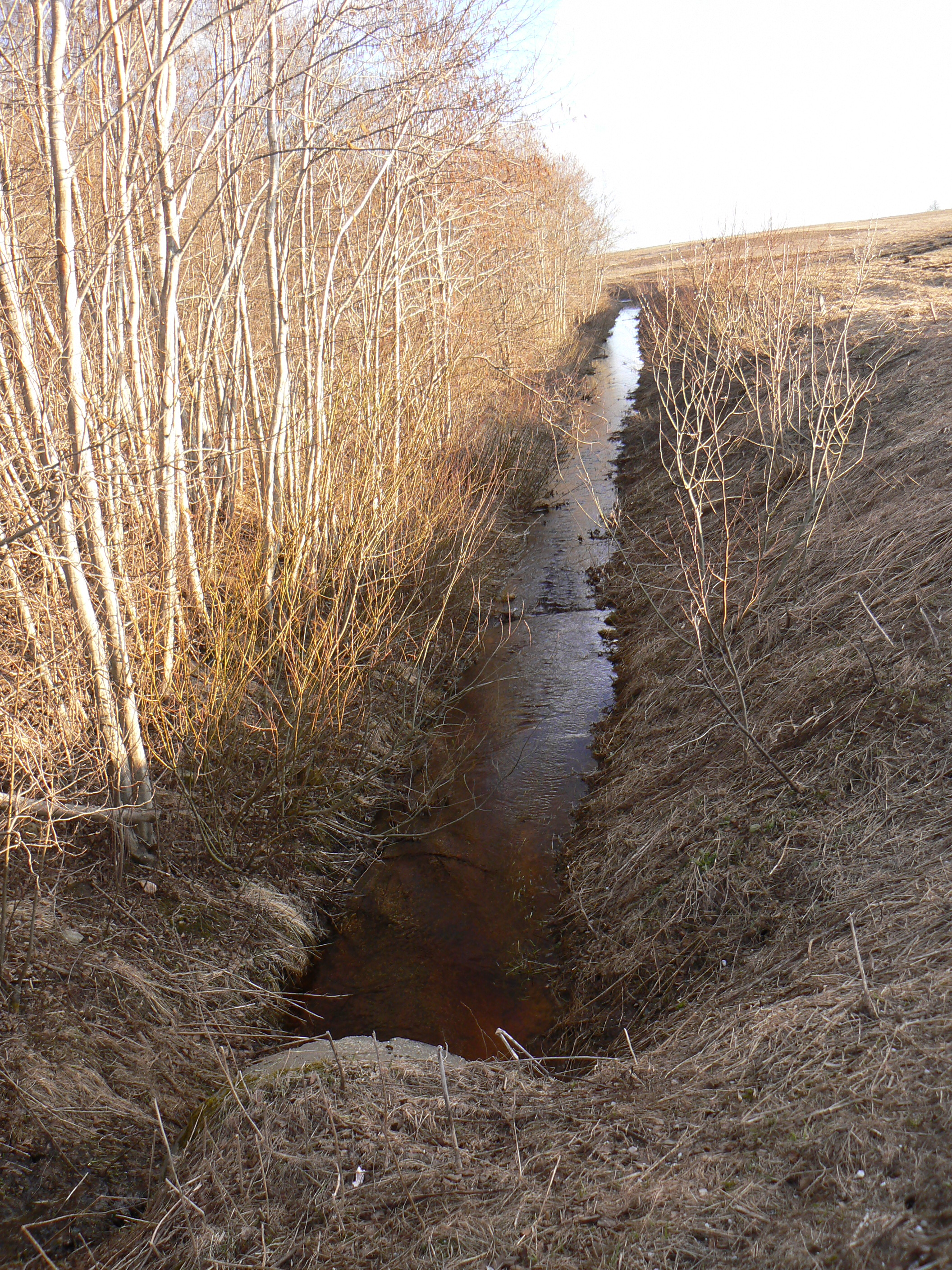 Rivulet Bremena between Naujasis Obelynas and Varsėdžiai